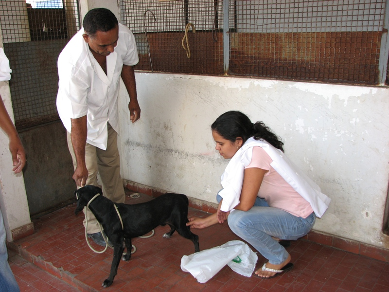 Lymph node palpation.